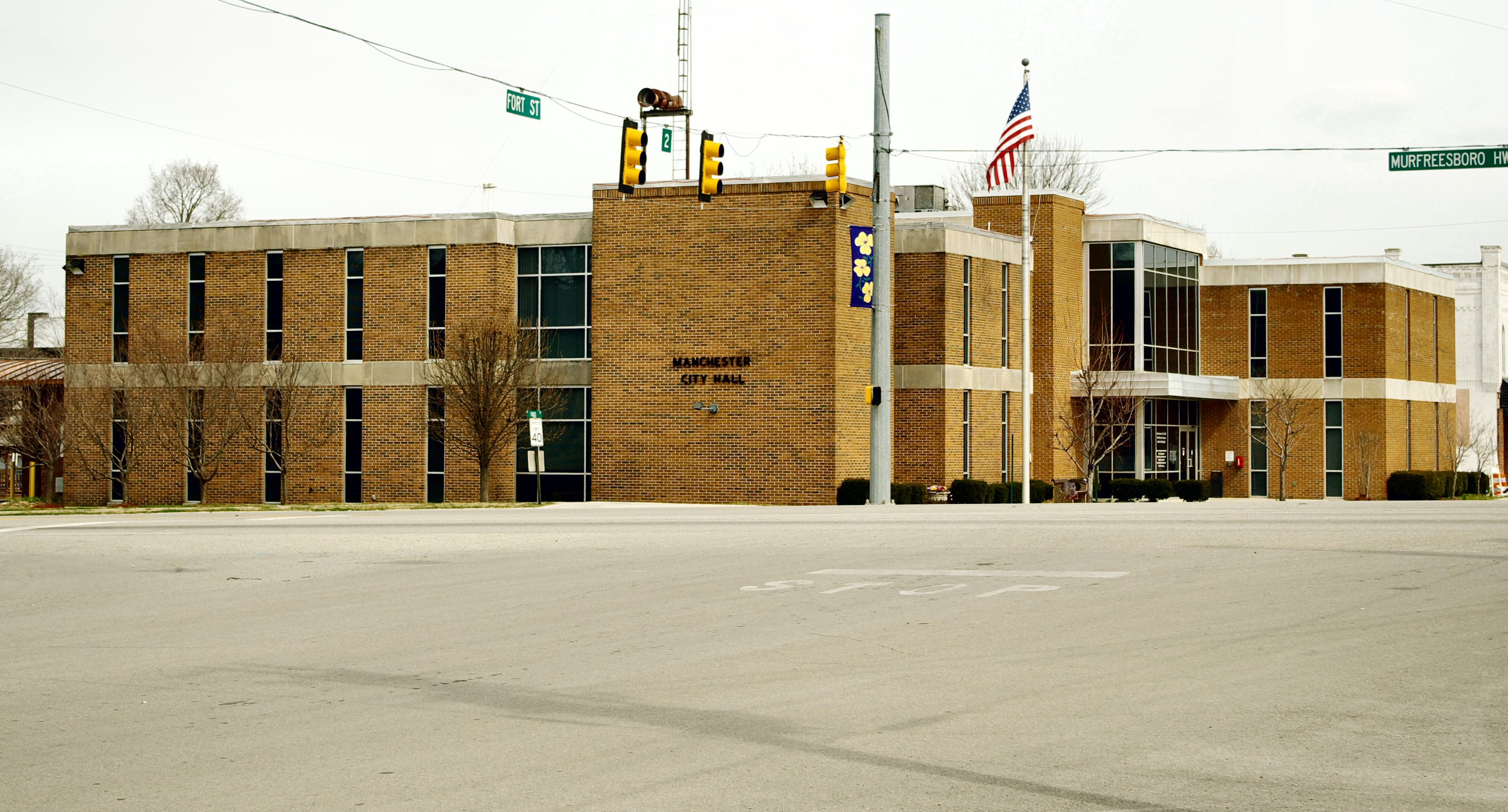 Manchester City Hall in Manchester, Tennessee, United States